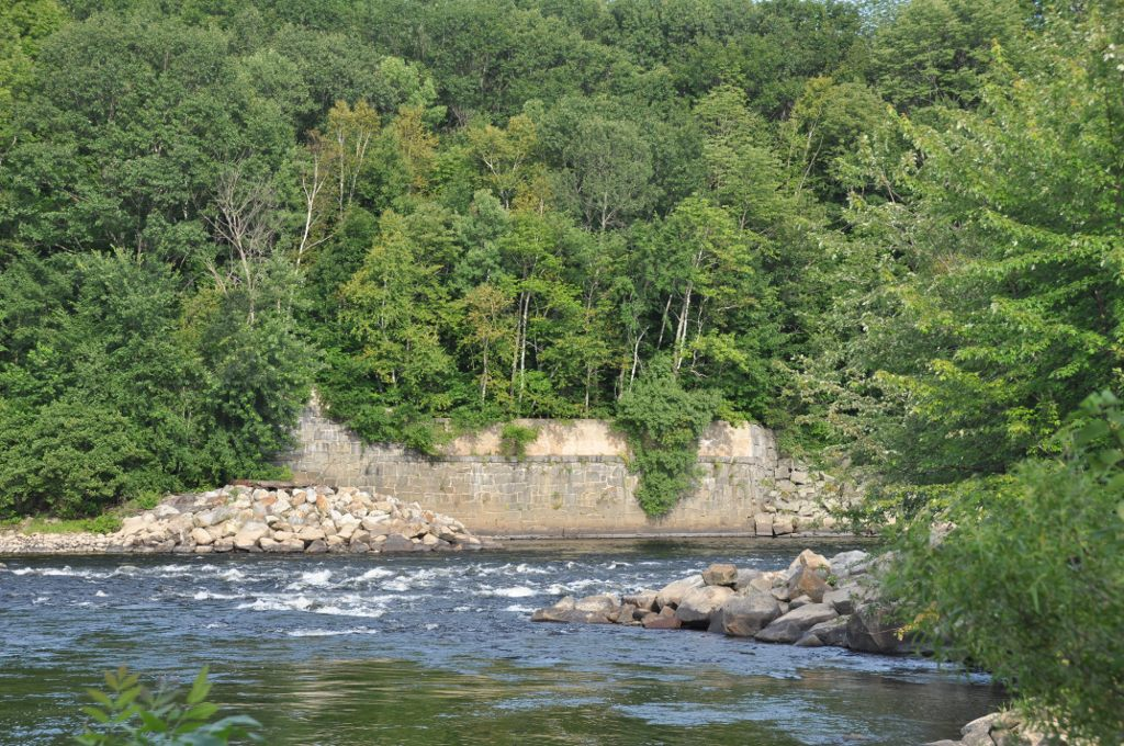 Merrimack River, view of the breached Sewall's Falls dam.